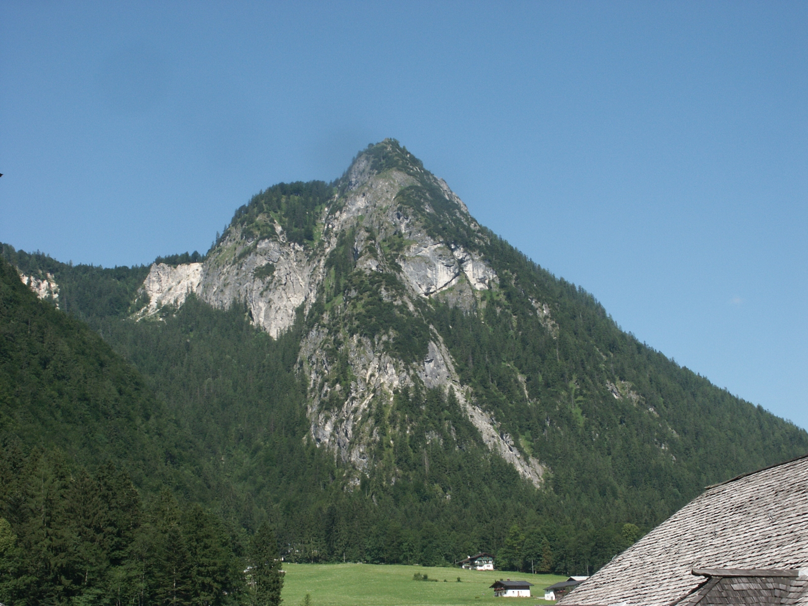 Grünstein, the northernmost and lowest peak of the Watzmann massif as seen from Königssee village,Berchtesgaden Alps, Bavaria, Germany.